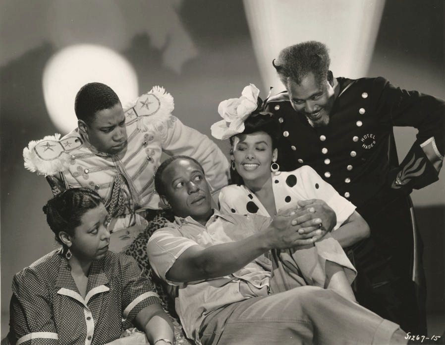 L. to R. : Ethel Waters, Kenneth Spencer, Eddie Anderson, Lena Horne, and Rex Ingram in the film Cabin in the Sky (1943) - publicity still (cropped : see source).